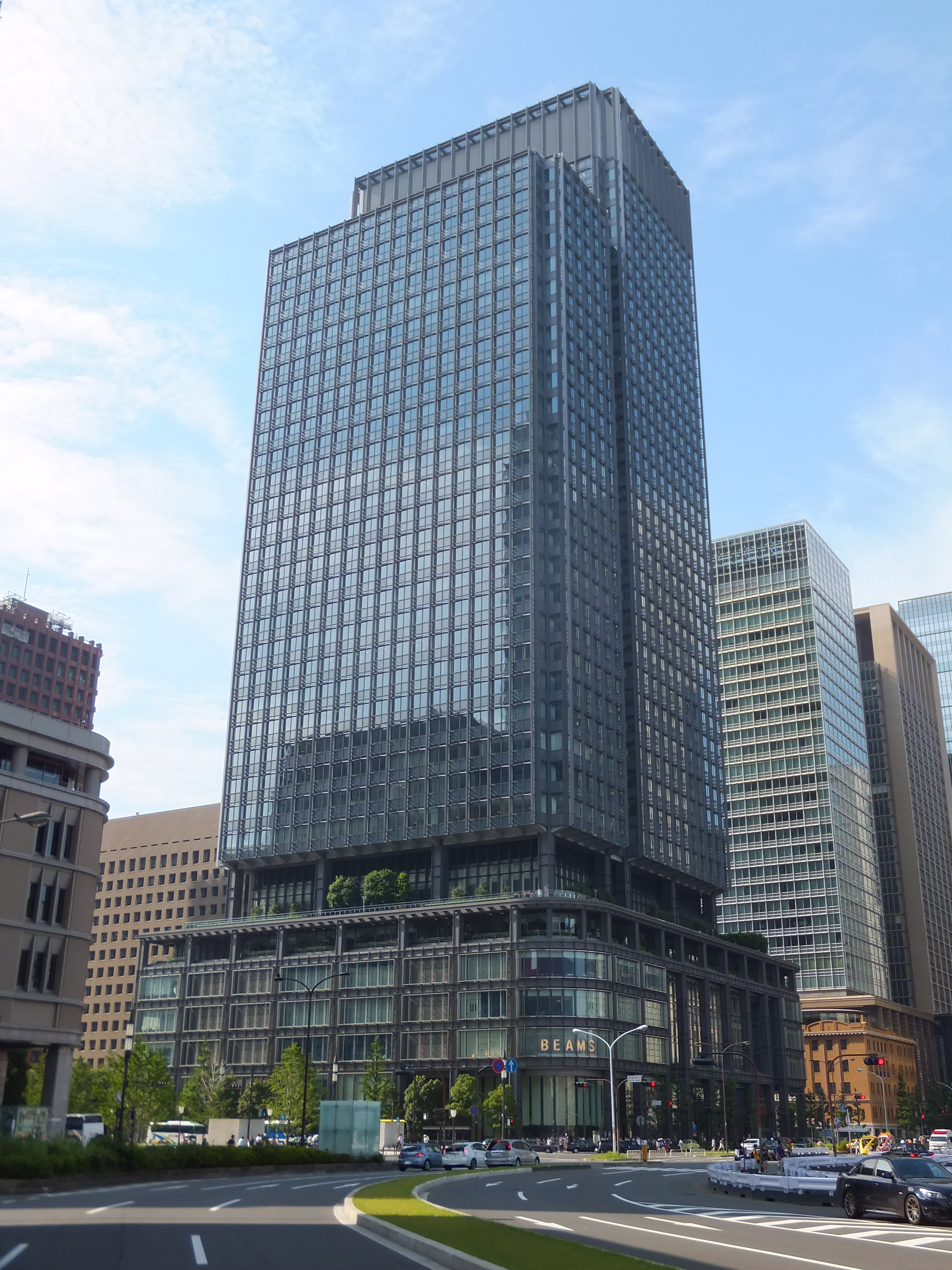 Shin-Marunouchi Building in Chiyoda, Tokyo